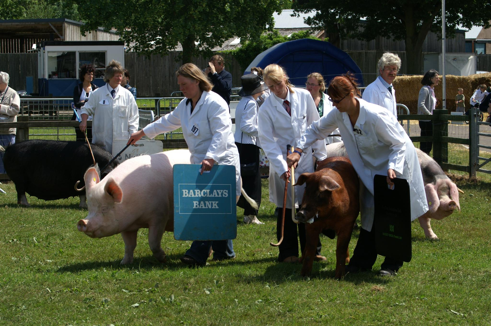 Pig judging at The Last Royal Show